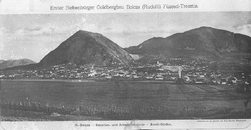 view of Băiță (Boica) in the Metallifer Mountains